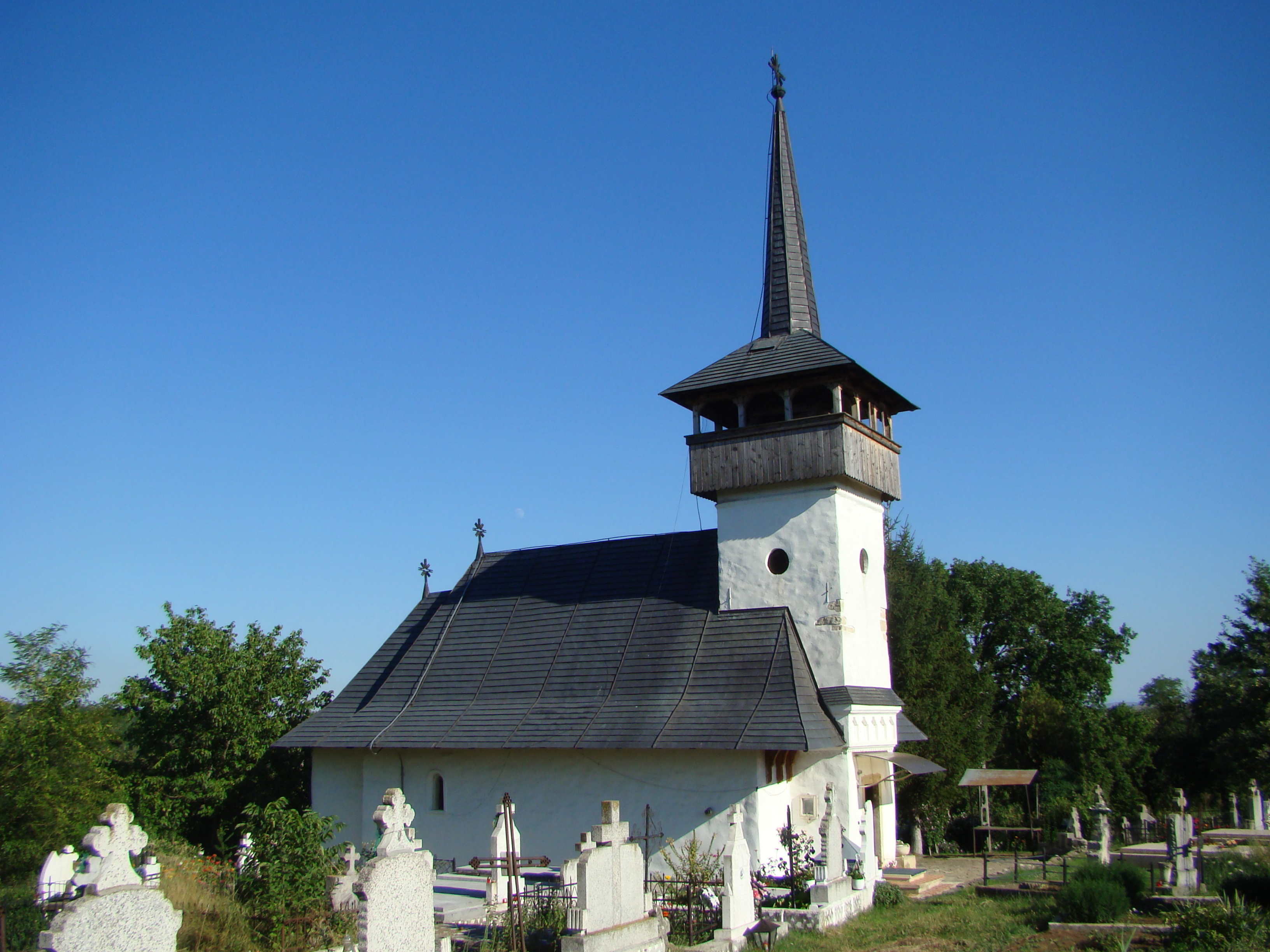 Saint Paraskeva's church in Mesentea, Alba county, Romania